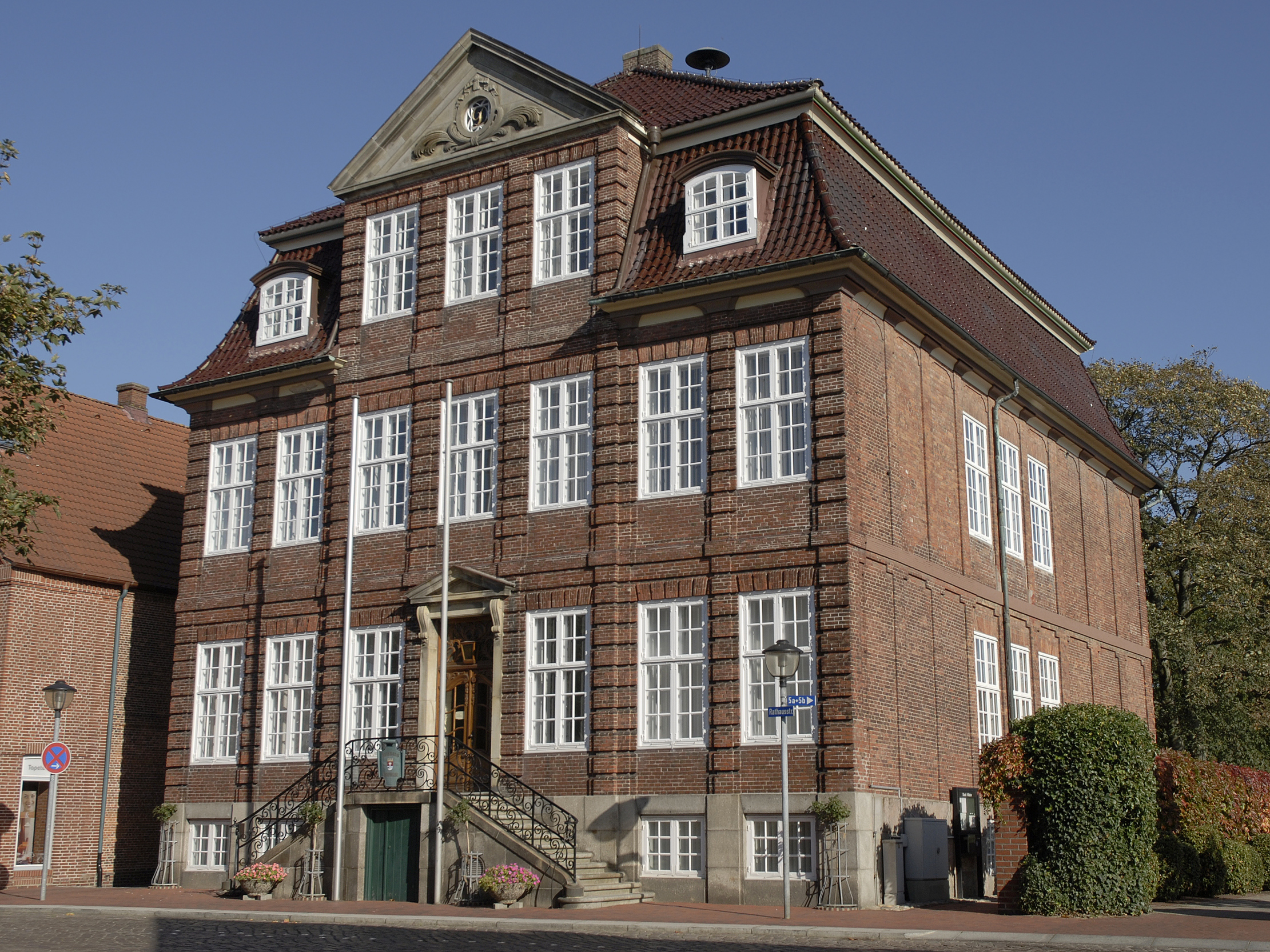 New town hall of Wilster, Germany